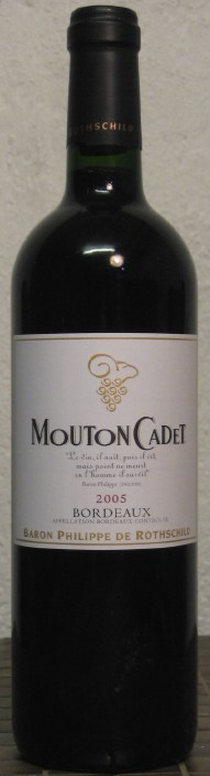 Long shot of a bottle of Mouton Cadet 2005 ;-)